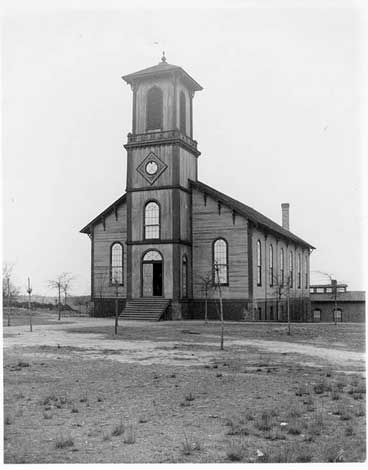 Chapel of the Auburn Female College after being moved to the campus of the Alabama Agricultural and Mechanical College, Auburn, Alabama, ca. 1883. The structure is today known as Langdon Hall.